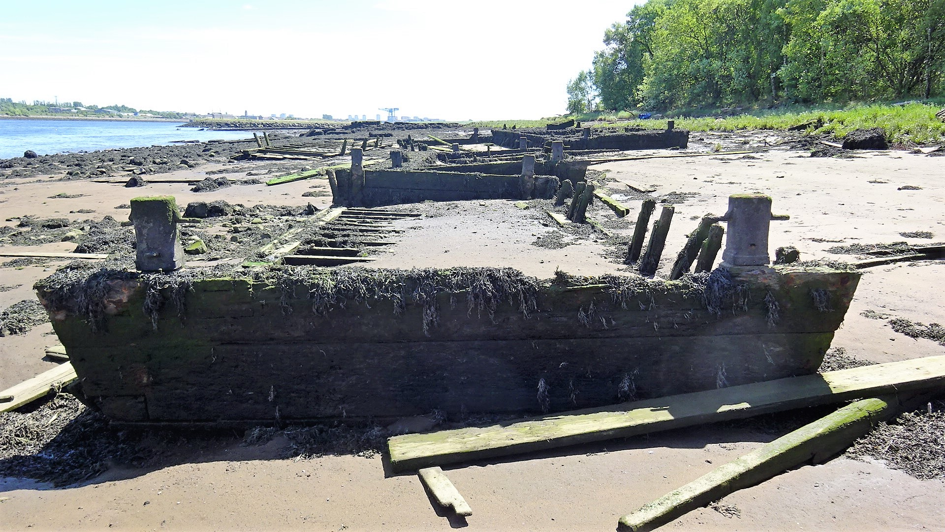 Park Quay, ship graveyard mud punts wrecks, River Clyde, Erskine - view east